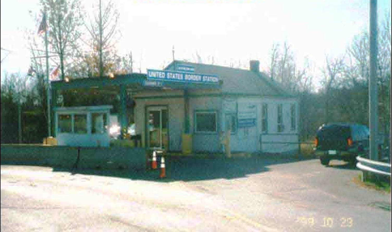 US border inspection station at the Calais-Milltown bridge, as seen in 1999 Other information Photo was part of a presentation given by Bill Wells of the GSA at the TBWG workshop in Niagara Falls, ON, November 7, 2011.